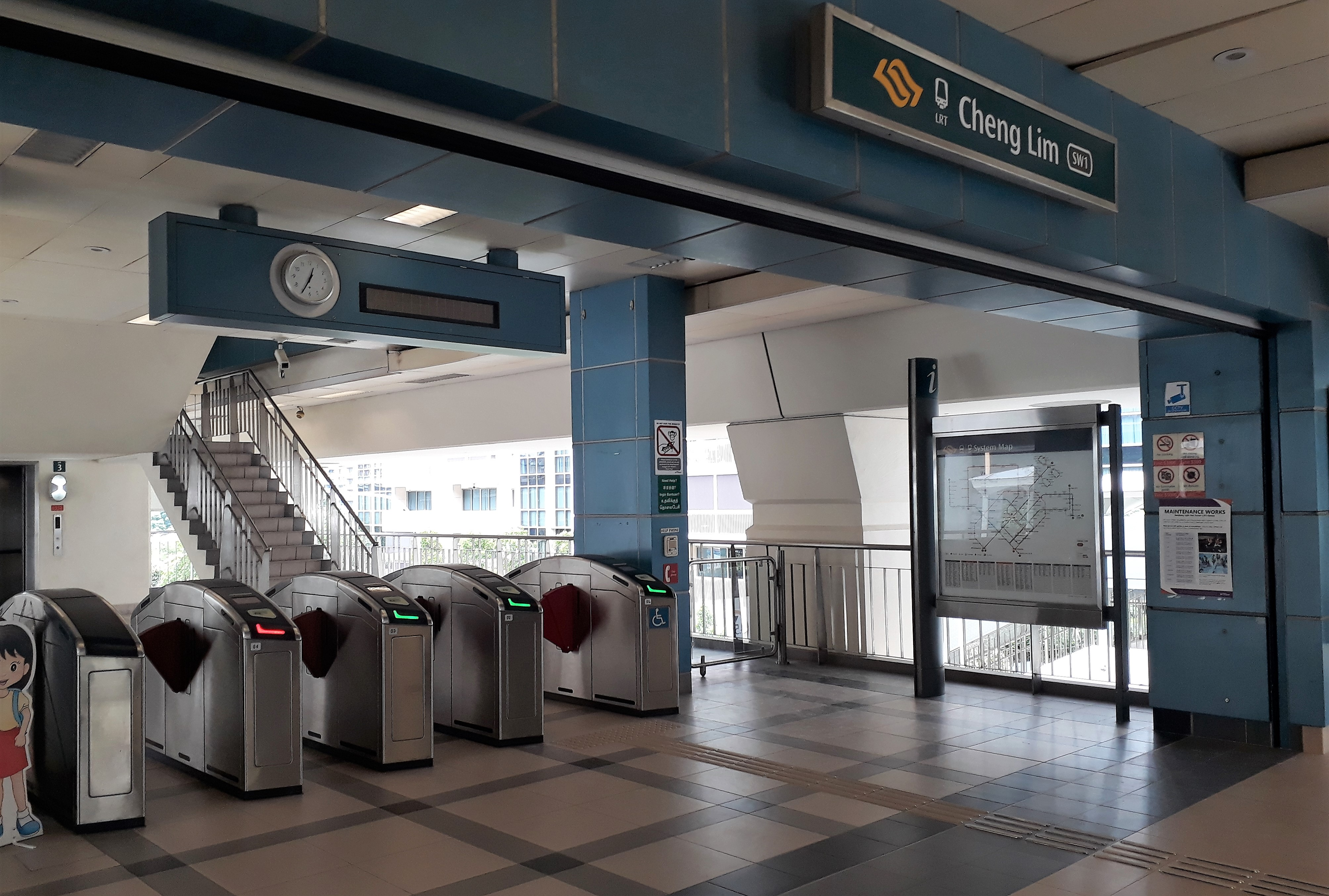 Cheng Lim LRT